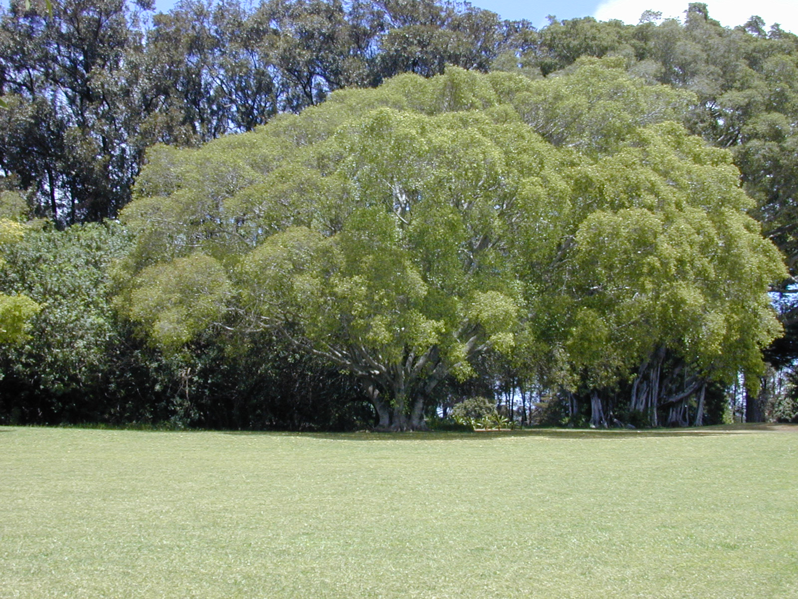 Ficus microcarpa (habit). Location: Maui, Makawao